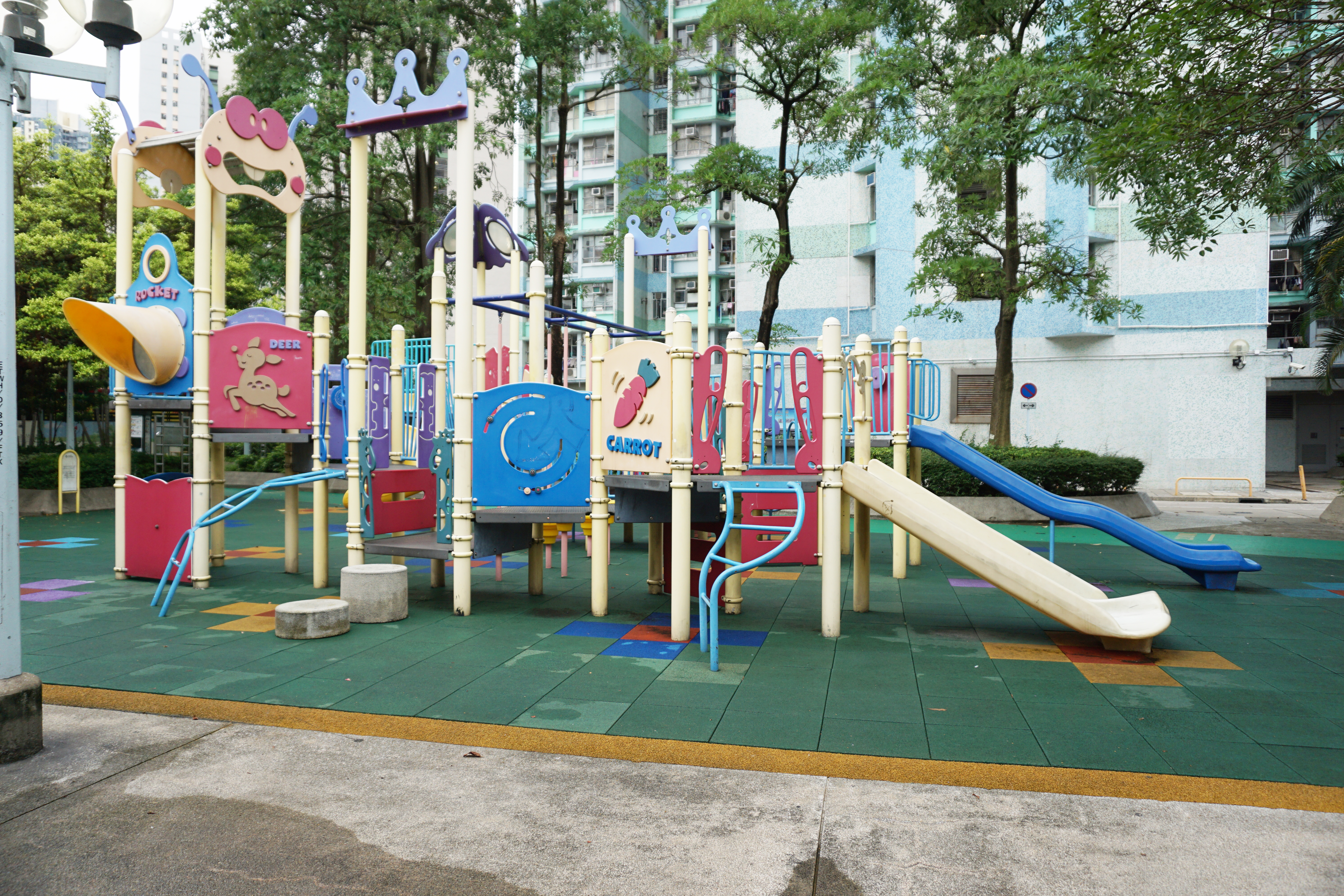 Tai Wo Hau Estate in Tai Wo Hau, Hong Kong.